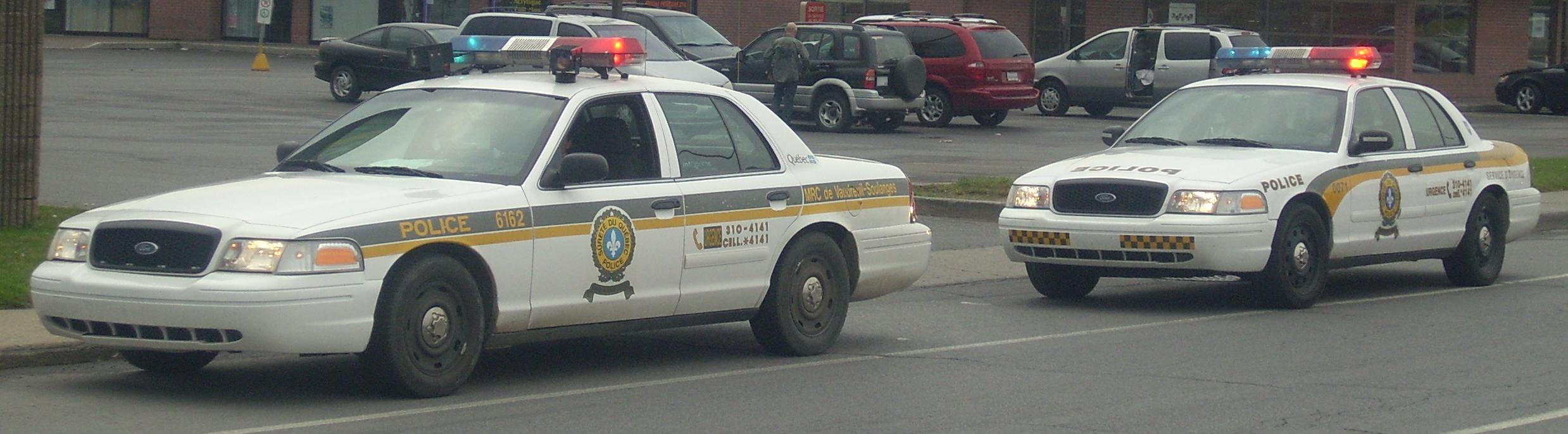 Ford Crown Victorias photographed in Vaudreuil-Dorion, Quebec, Canada.